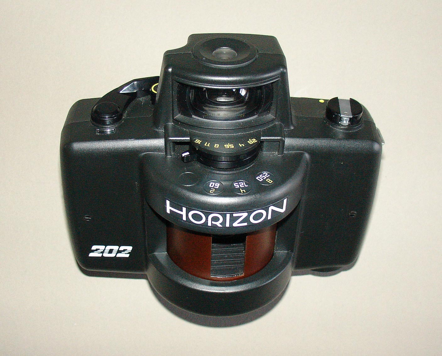 Horizon 202 swing-lens camera.